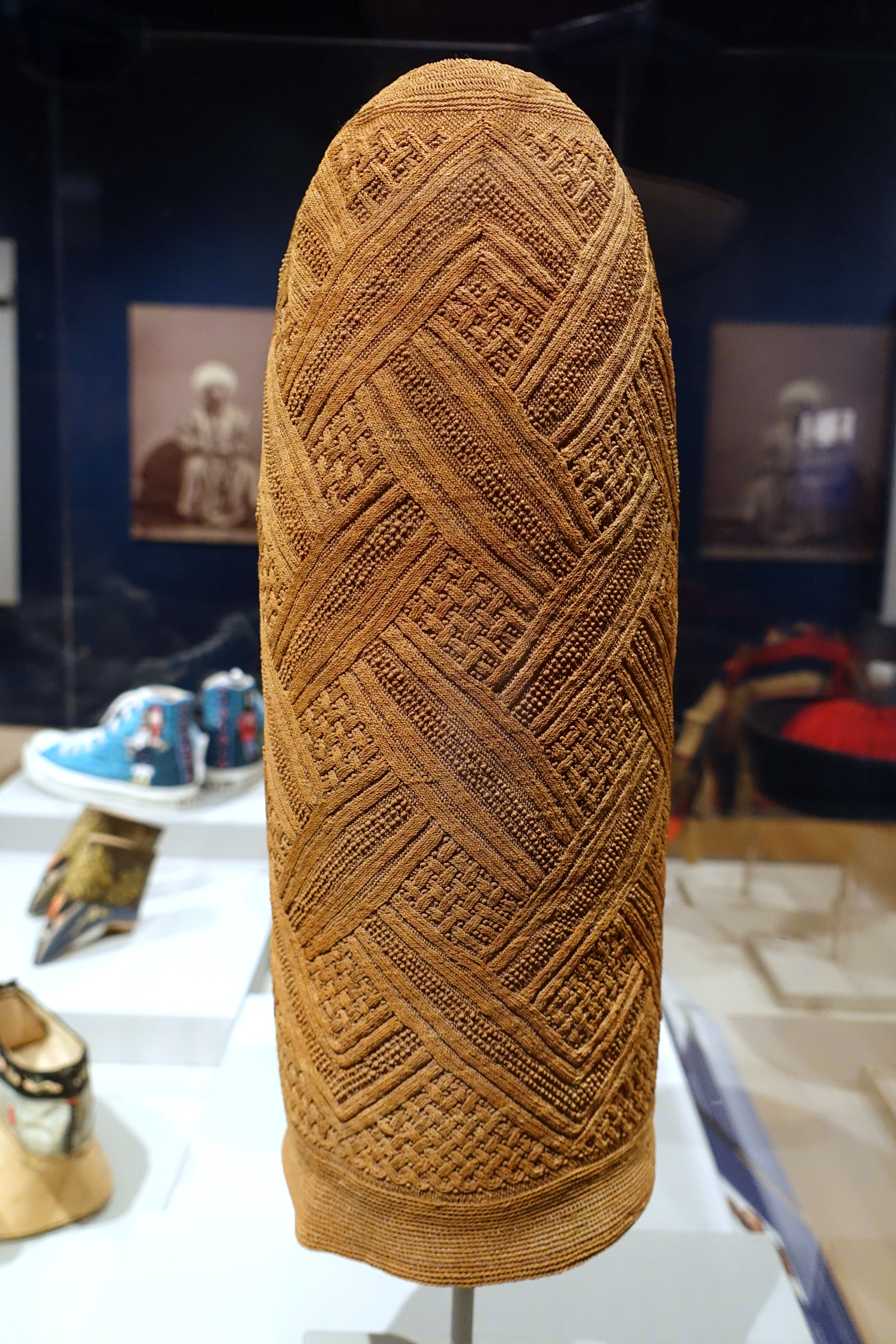 Exhibit in the Textile Museum, George Washington University, Washington, DC, USA. This work is old enough so that it is in the public domain.